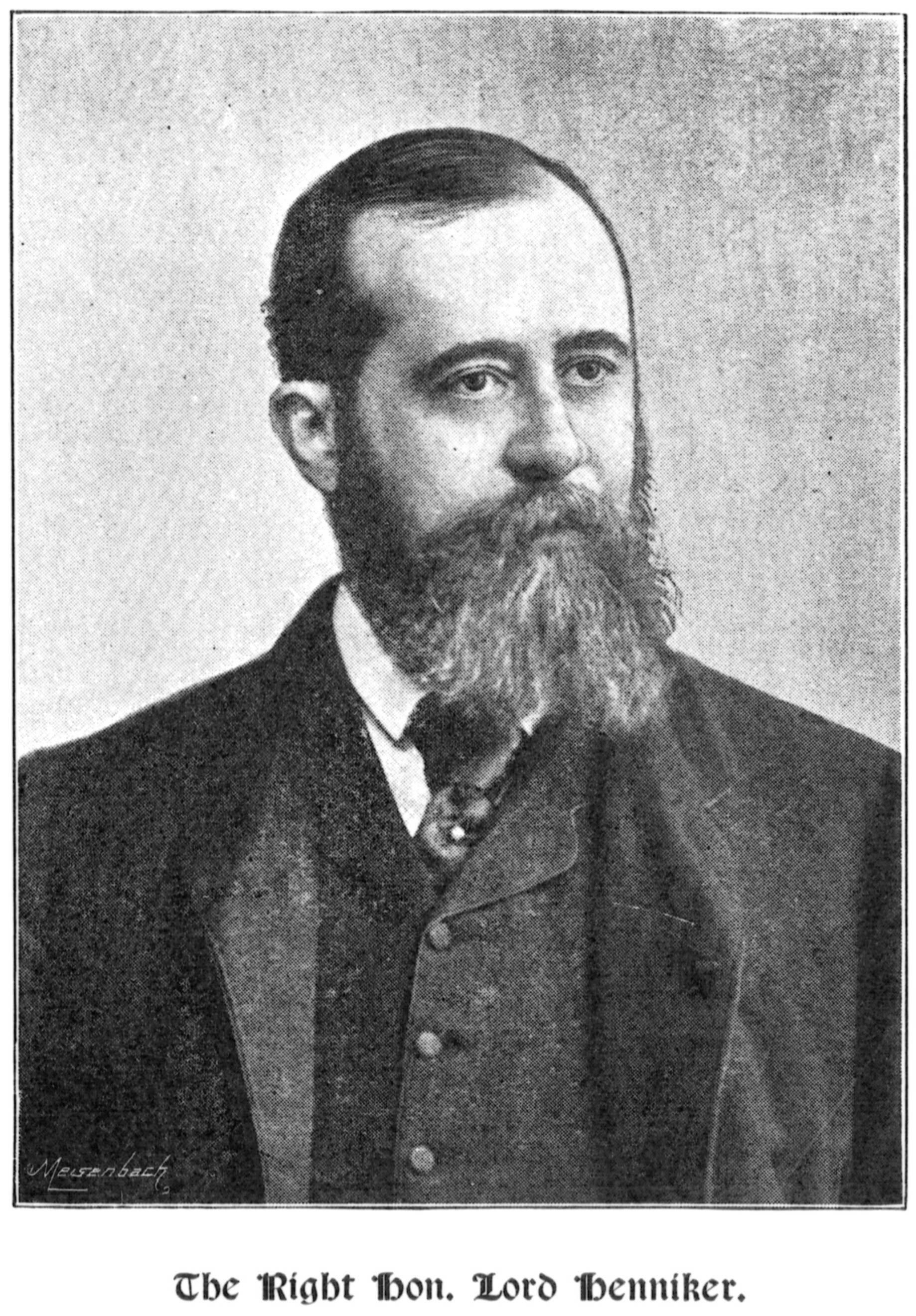 Portrait of John Major Henniker-Major, 5th Baron Henniker, published August 1893 in Suffolk Celebrities